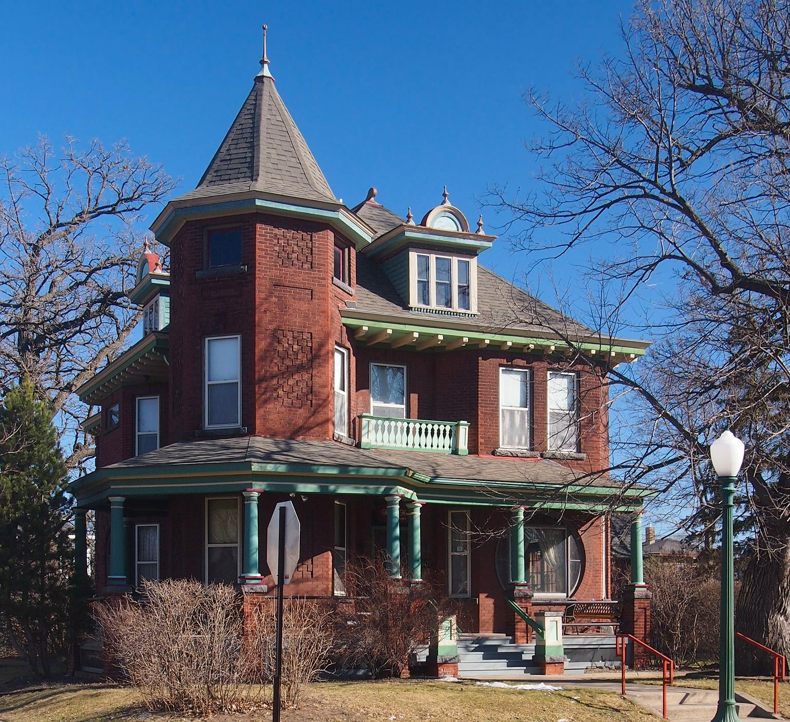 John N. Bensen House, 402 6th Ave S, St Cloud, Minnesota, USA. Viewed from the northwest. Now Heritage House Bed & Breakfast.